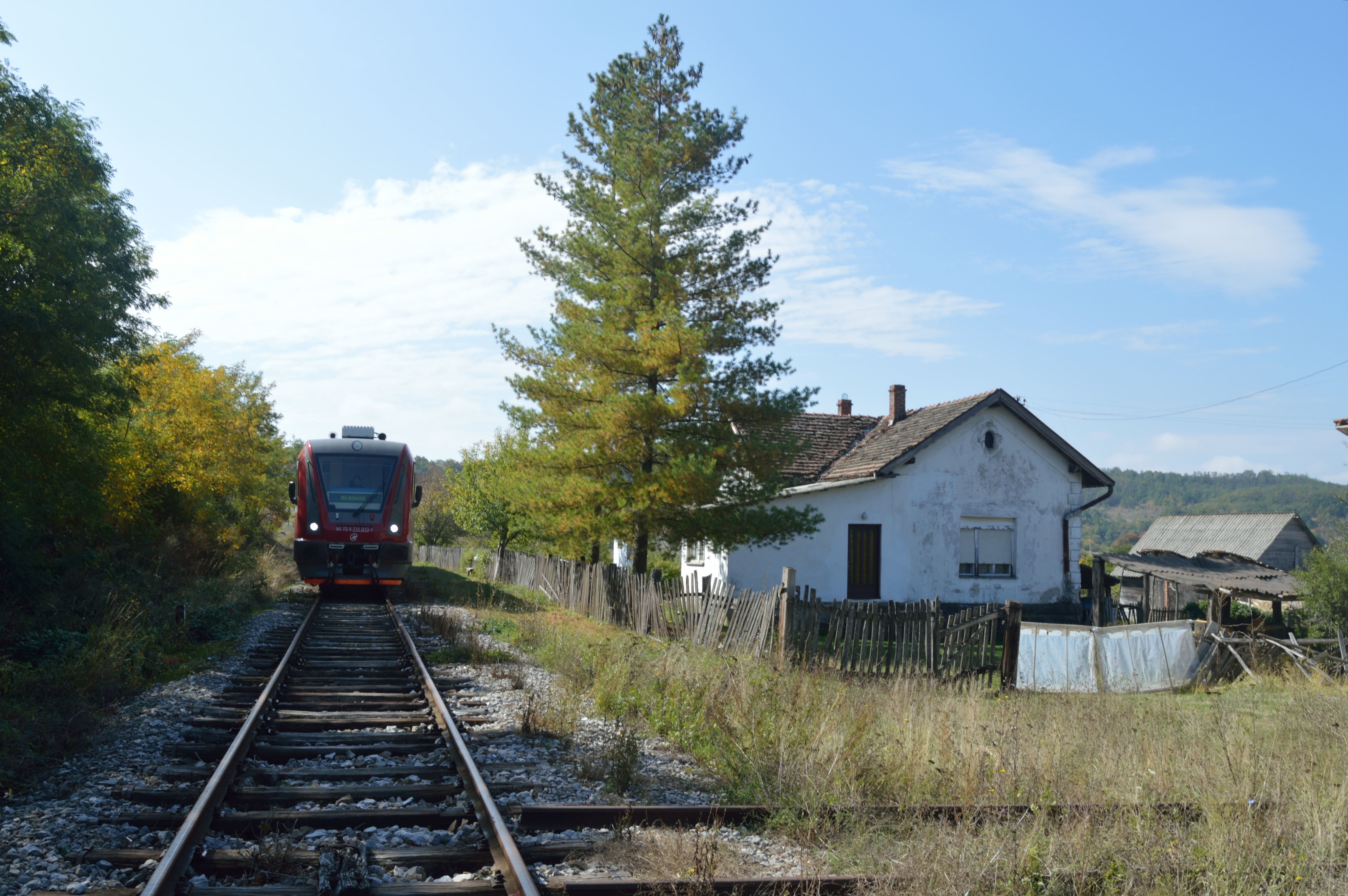 Balkans Rail Trip, Autumn 2013 - Day Six End of the journey, but not quite end of the line. Earlier in 2013, services were extended through to Merdare on a once a day basis. The line did continue further on to Pristina now the capital of Kosovo, however due to ongoing tensions with Serbia both rail links remain closed. on 28 September 2013 711.013 is ready to work train 7830, 11:30 Merdare to Niš. I took this back to Kuršumlija where I continued (by bus) to Kralejvo.